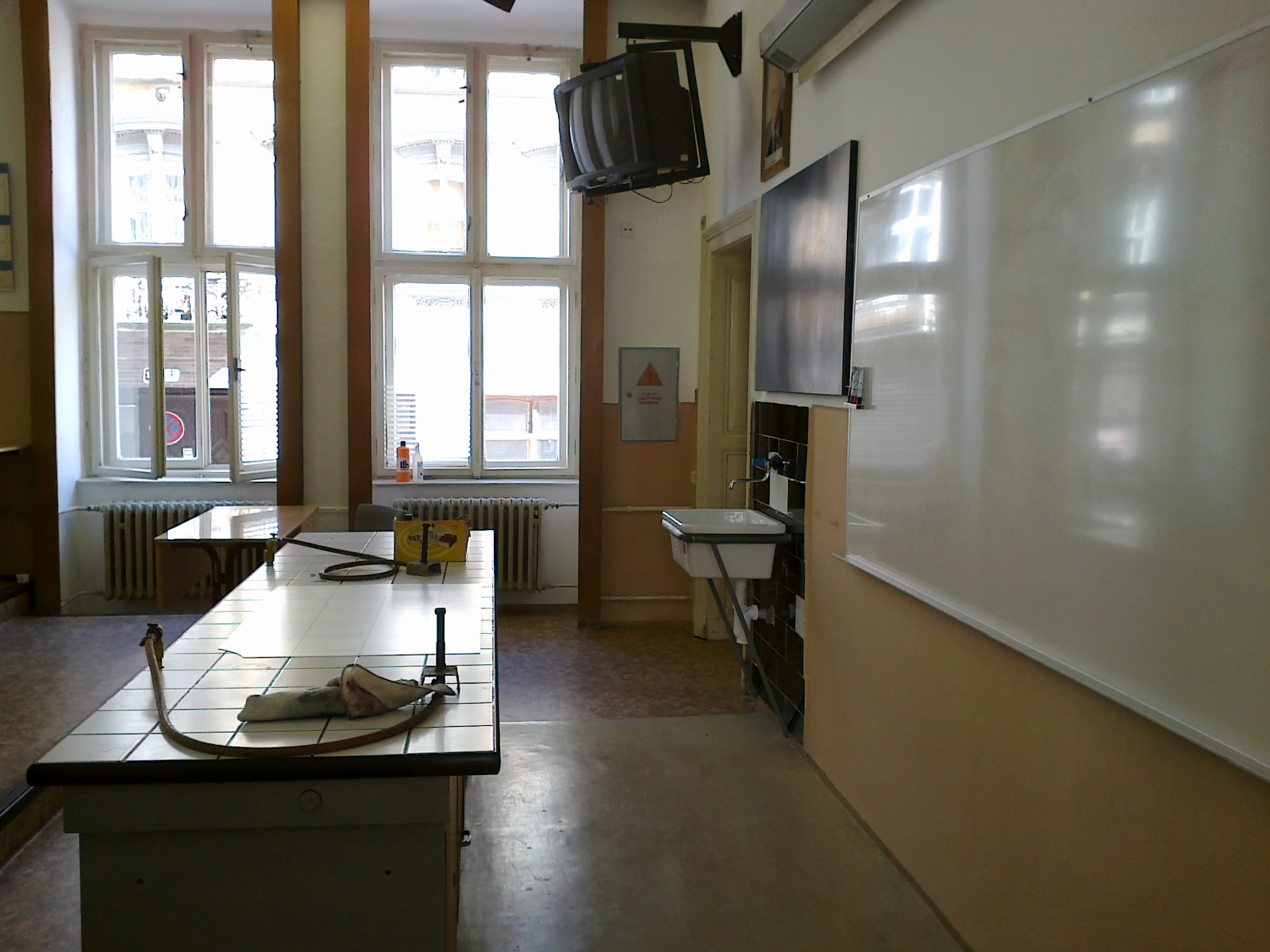 School in Znojmo